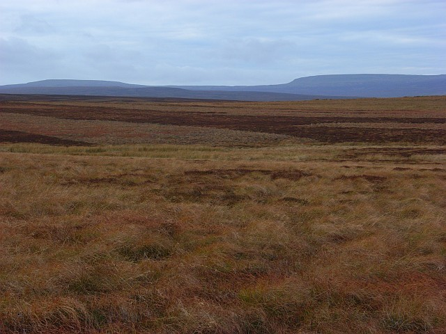 Moorland, Cotherstone This view is taken from just west of the Middle Mere boundary stone and looks across the pretty featureless moor. Mickle Fell (right) and Little Fell are on the skyline.